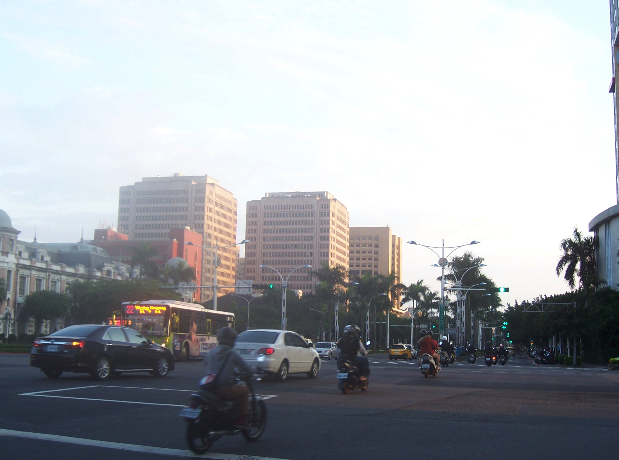 North end of Provincial Highway No. 9 and Zhongshan S. Rd. in Zhongzheng Dist., Taipei City